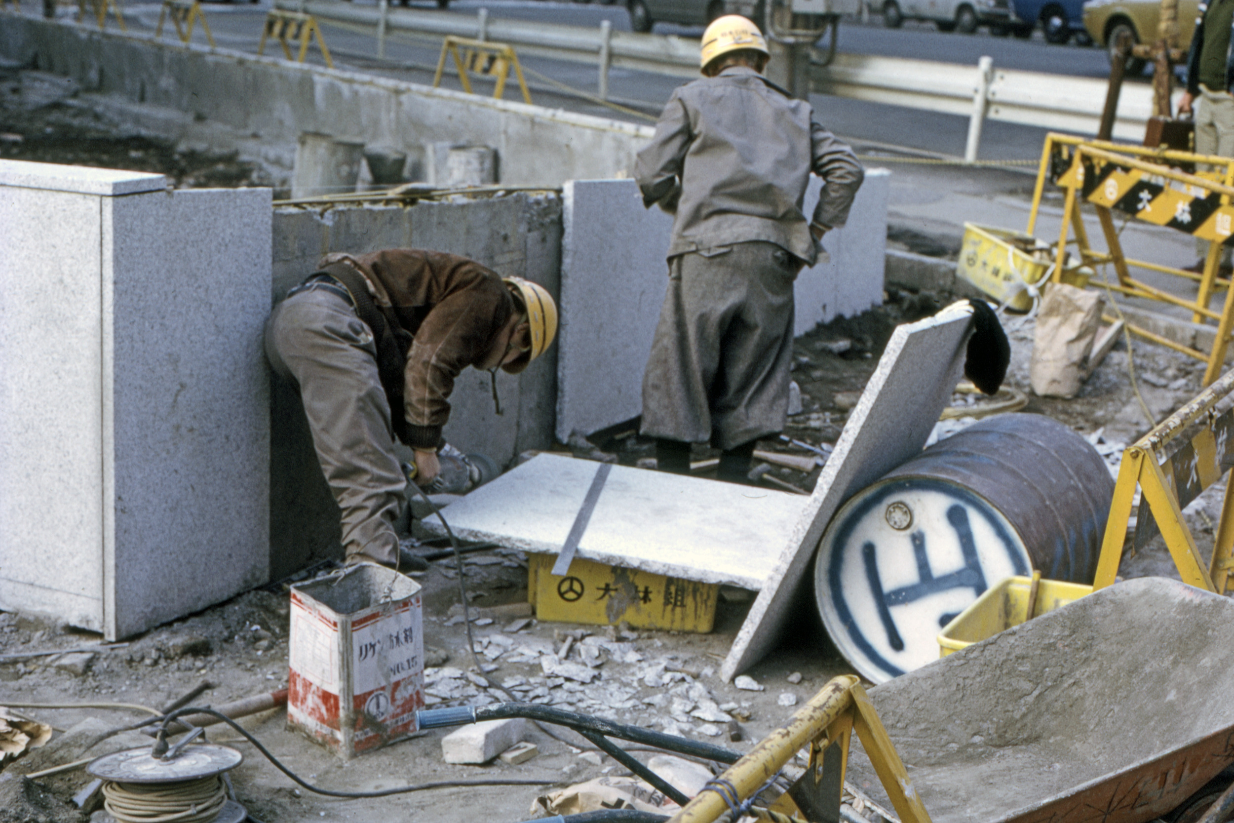 Found Photo - Japan - Unknown Construction 2.tif